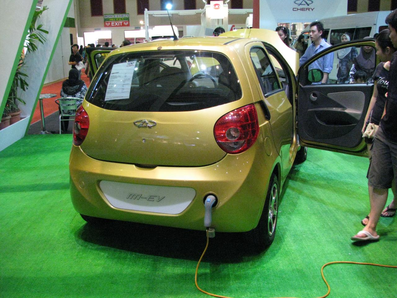 Chery M1 electric car at the 2010 KLIMS.